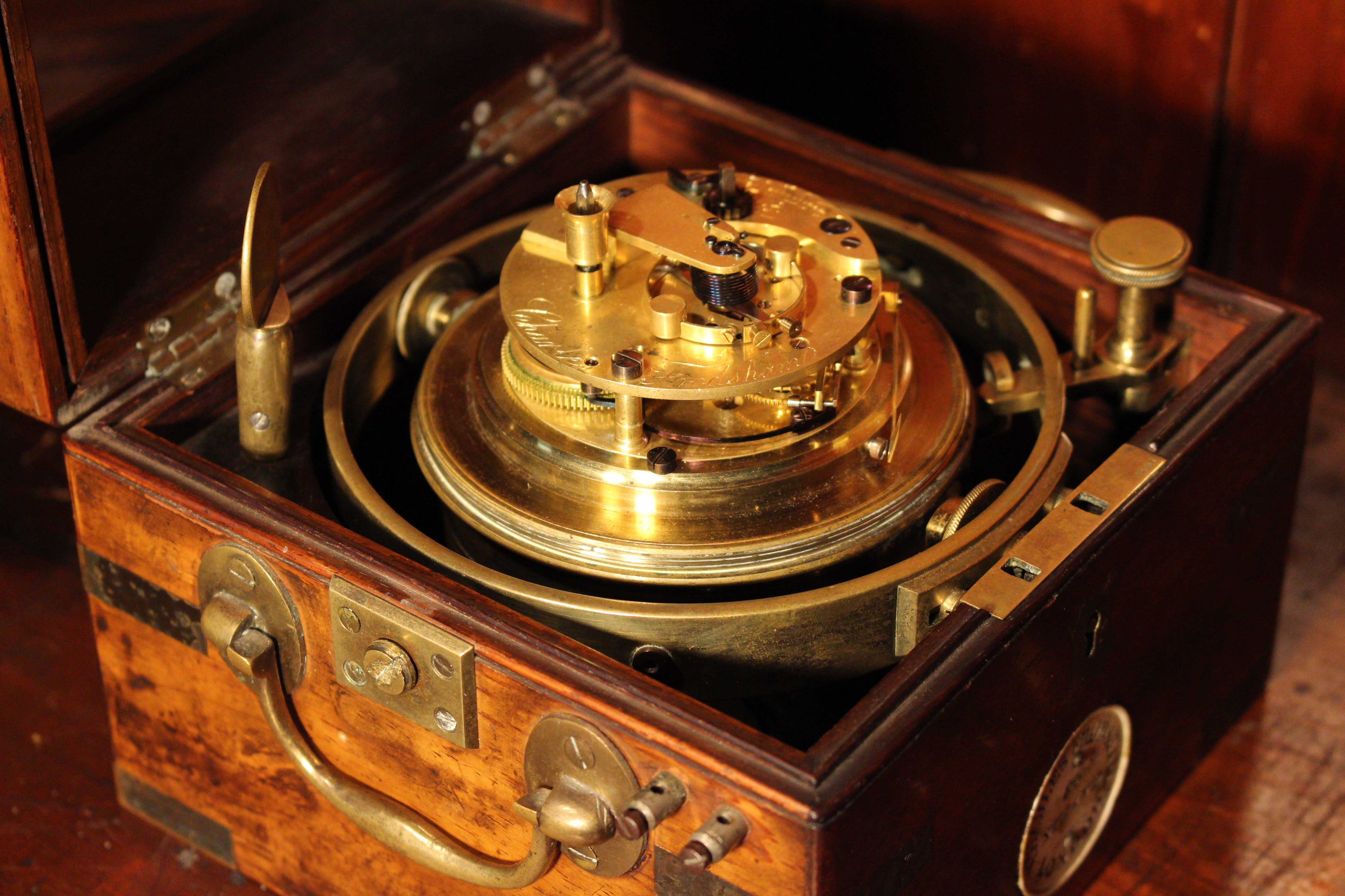 Marine Chronometer #2299 made by Charles Frodsham of London, circa 1844 – 1860. It was later modified to include a telegraph break circuit by William Bond and Son of Boston. From the Ladd Observatory collection.